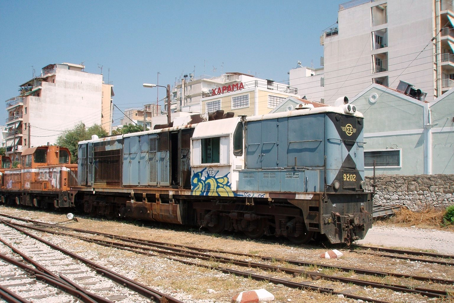 Alsthom metric locomotive of OSE at Patras (Aghios Andreas) sidings, Greece.